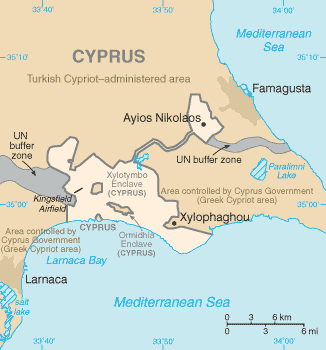 World Factbook map of Dhekelia